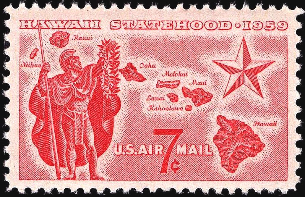 August 21, 1959 7¢ Rose Hawaii Statehood C55 26432